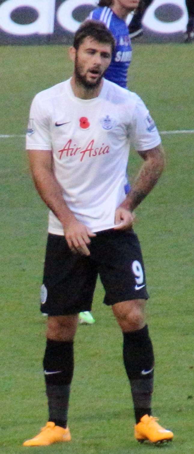 Chelsea 2 QPR 1 Premier League match between Chelsea and Queens Park Rangers at Stamford Bridge on 1 November 2014.